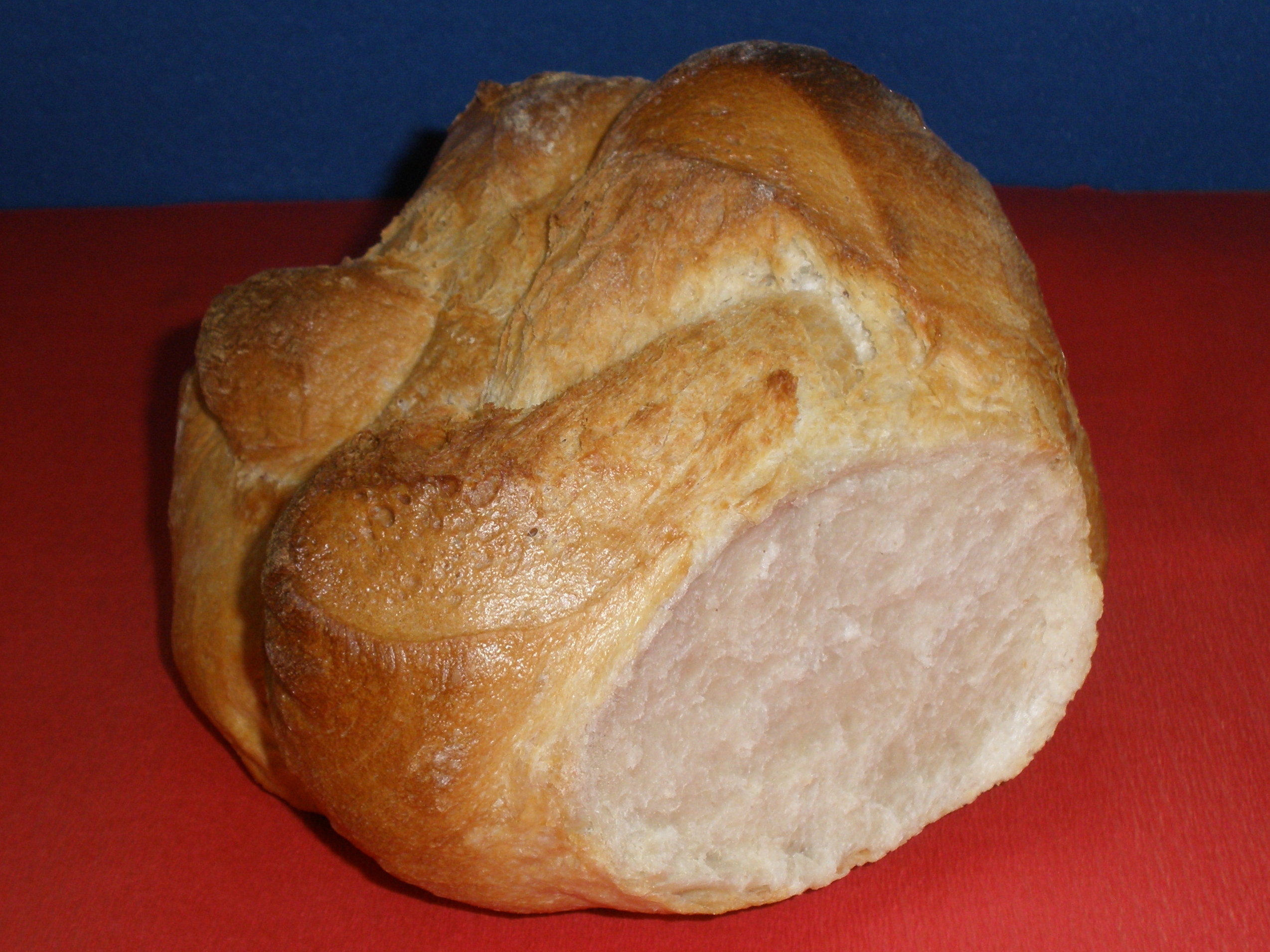 Bread of St. Gallen, a Swiss bread type